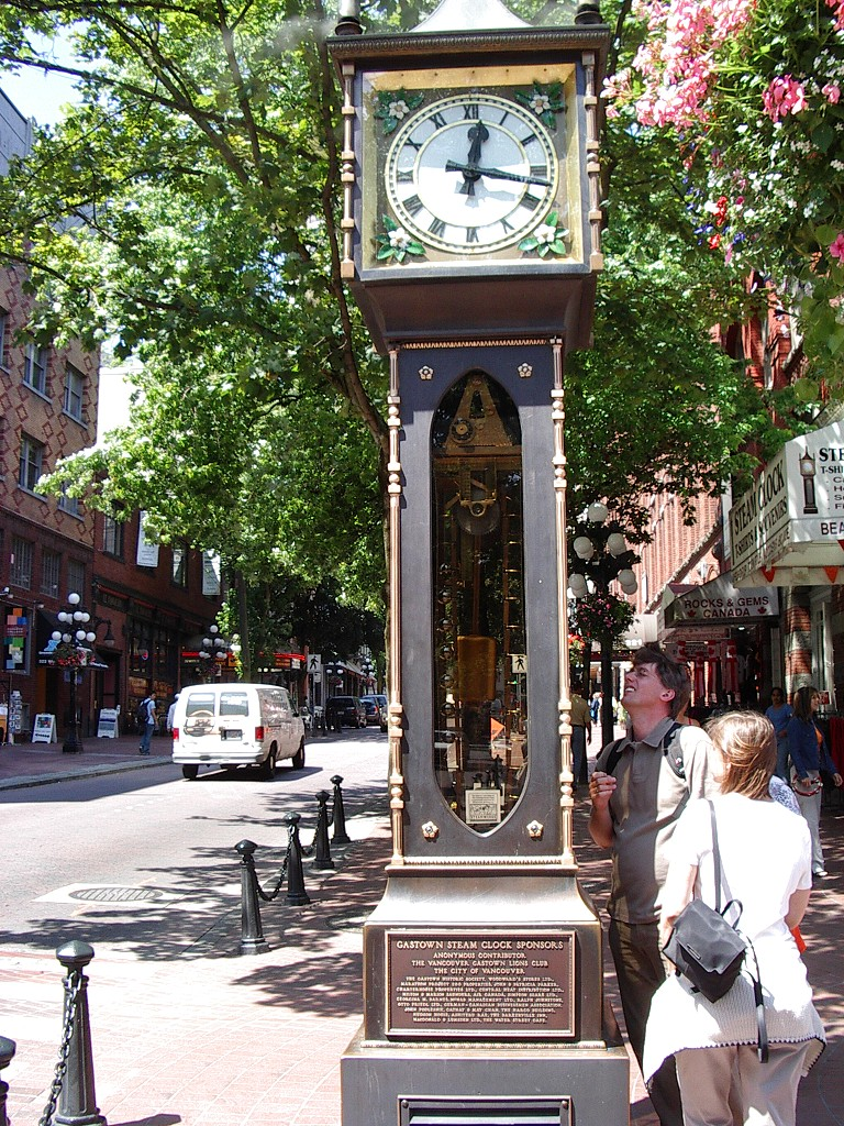 Steam Clock in Gastown (Vancouver, British Columbia, Canada)